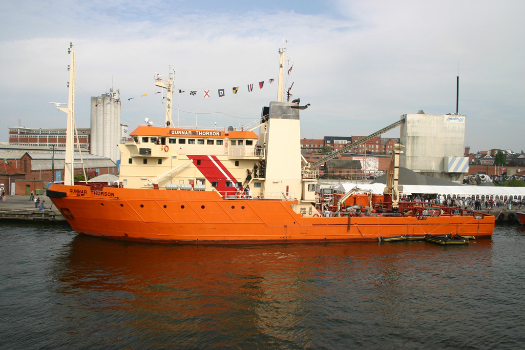 Danish navy environmental protection vessel Gunnar Thorson dockside in Odense